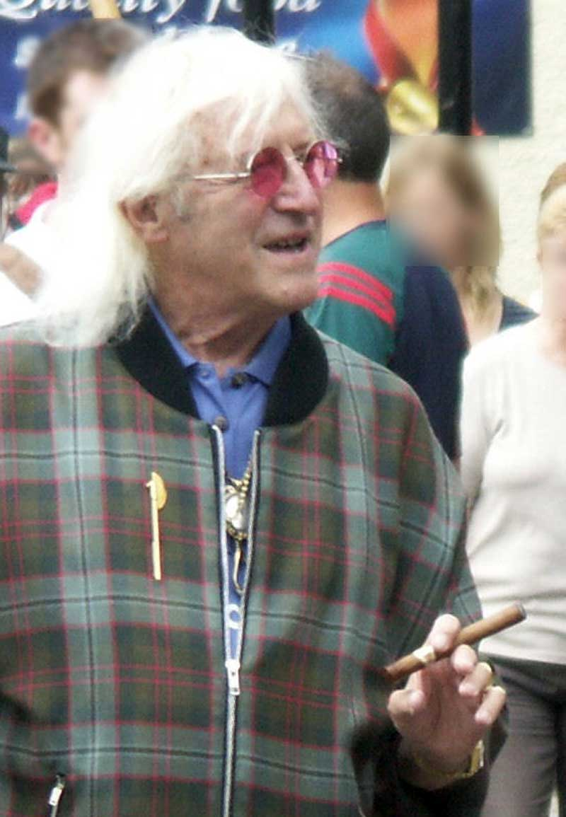 Sir Jimmy Savile Leading the pipe band through Fort William to the Lochaber Highland Games in his capacity as Honorary Chieftain of the games. This was taken on Saturday 29th July 2006, Sir Jimmy Savile recorded the final edition of Top of the Pops during the week rather than take part in a live broadcast on Sunday because of his commitment to the Lochaber Highland Games. He announced that he was stepping down from being Honorary Chieftain but would continue to be a "Special Friend" of the games. This is a cropped and rescaled version of the image, with blurred faces in the background.